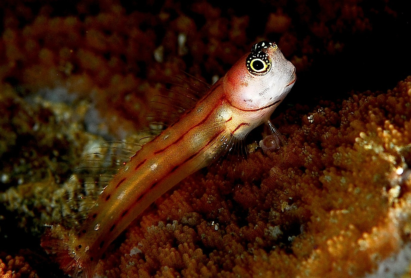 Ecsenius trilineatus'Monocle combtooth Blenny' On Black Shy and difficult to approach closely. Moves very fast.Monocle combtooth Blenny